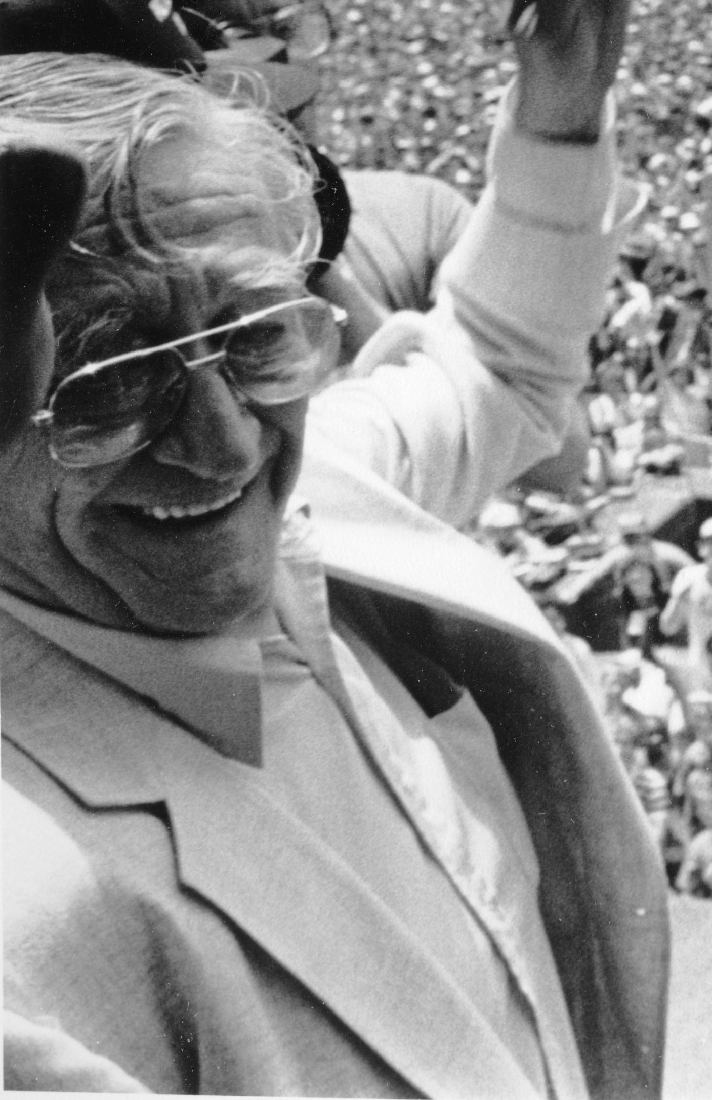 Title: Johnny Most, Bernard Cardinal Law, Mayor Raymond L. Flynn at rally for Boston Celtics Creator: Mayor's Office - City Photographer Date: circa 1984 Source: Mayor Raymond L. Flynn records, Collection #0246.001 File name: RF_0603 Rights: Copyright City of Boston Citation: Mayor Raymond L. Flynn records, Collection #0246.001, City of Boston Archives, Boston